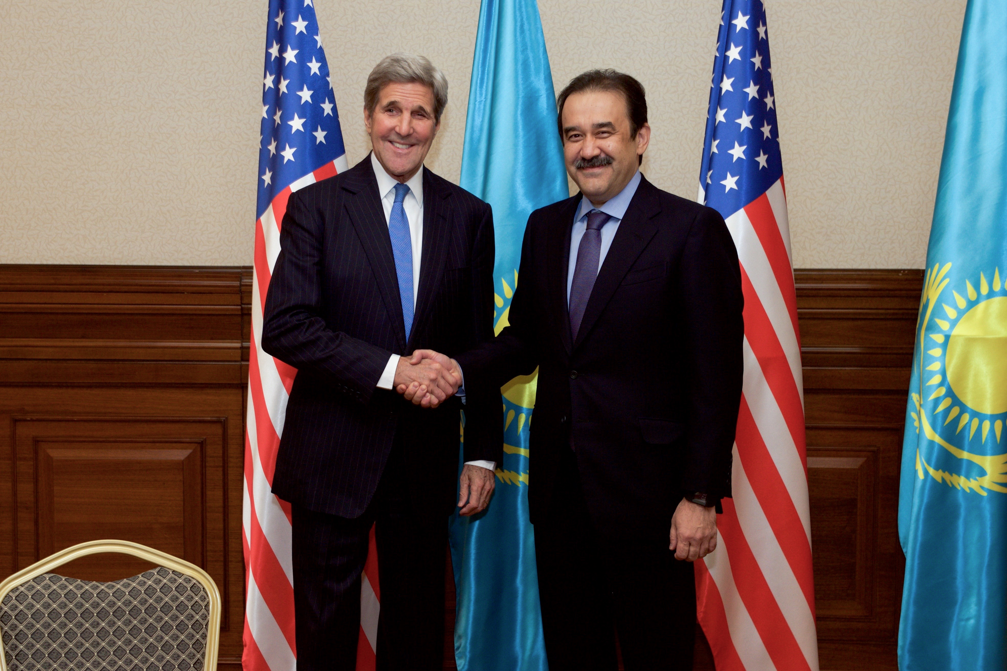 U.S. Secretary of State John Kerry shakes hands with Kazakhstan Prime Minister Karim Massimov before a bilateral meeting on November 2, 2015, at the Rixos Hotel in Nur-Sultan, Kazakhstan.